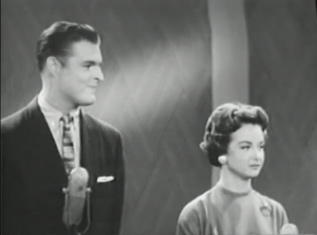 Don Drysdale and his wife Ginger on "You Bet Your Life" in 1959.